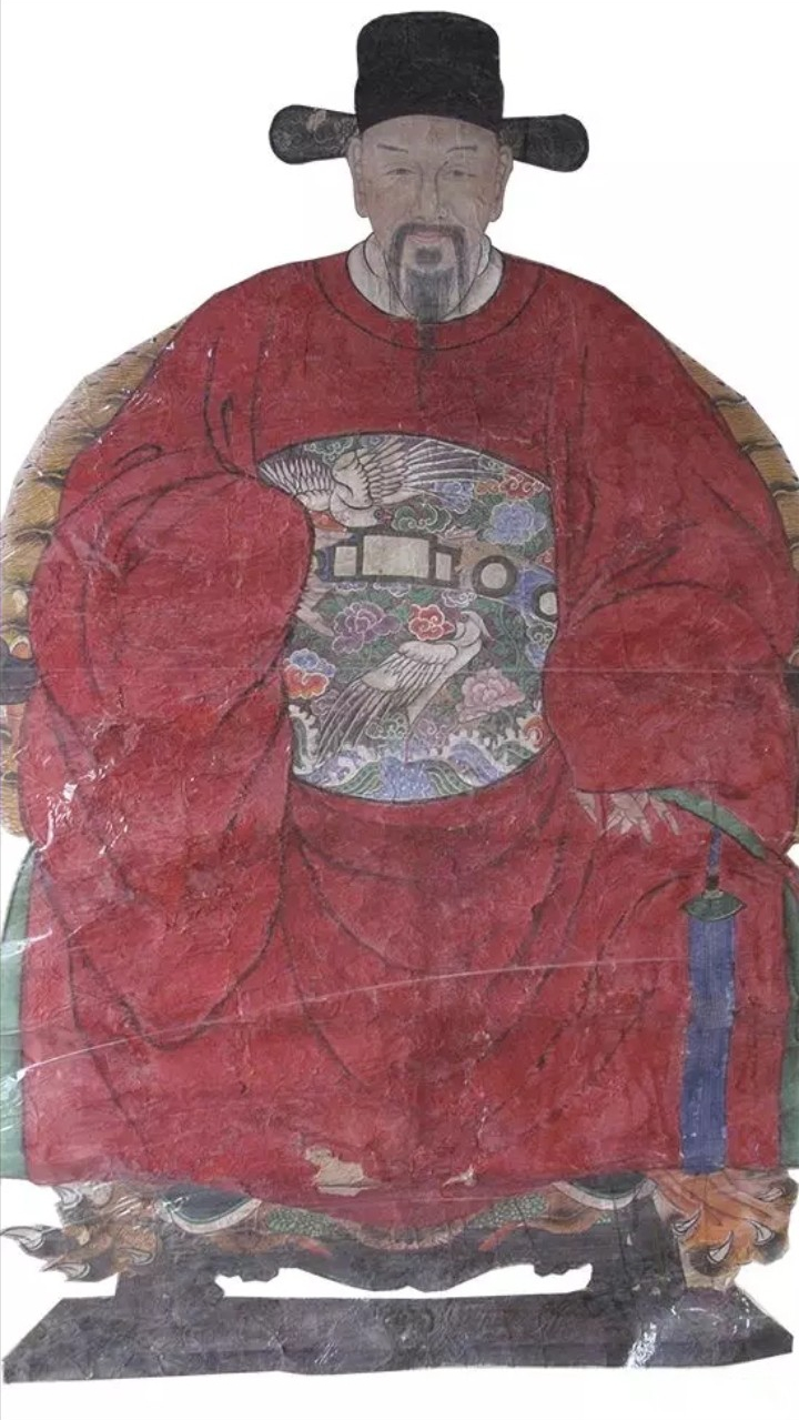 Lu Qi, Jinshi of the Yuan Dynasty.